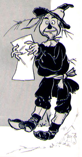 An illustration by W. W. Denslow from The Wonderful Wizard of Oz, also known as The Wizard of Oz, a 1900 children's novel by L. Frank Baum.